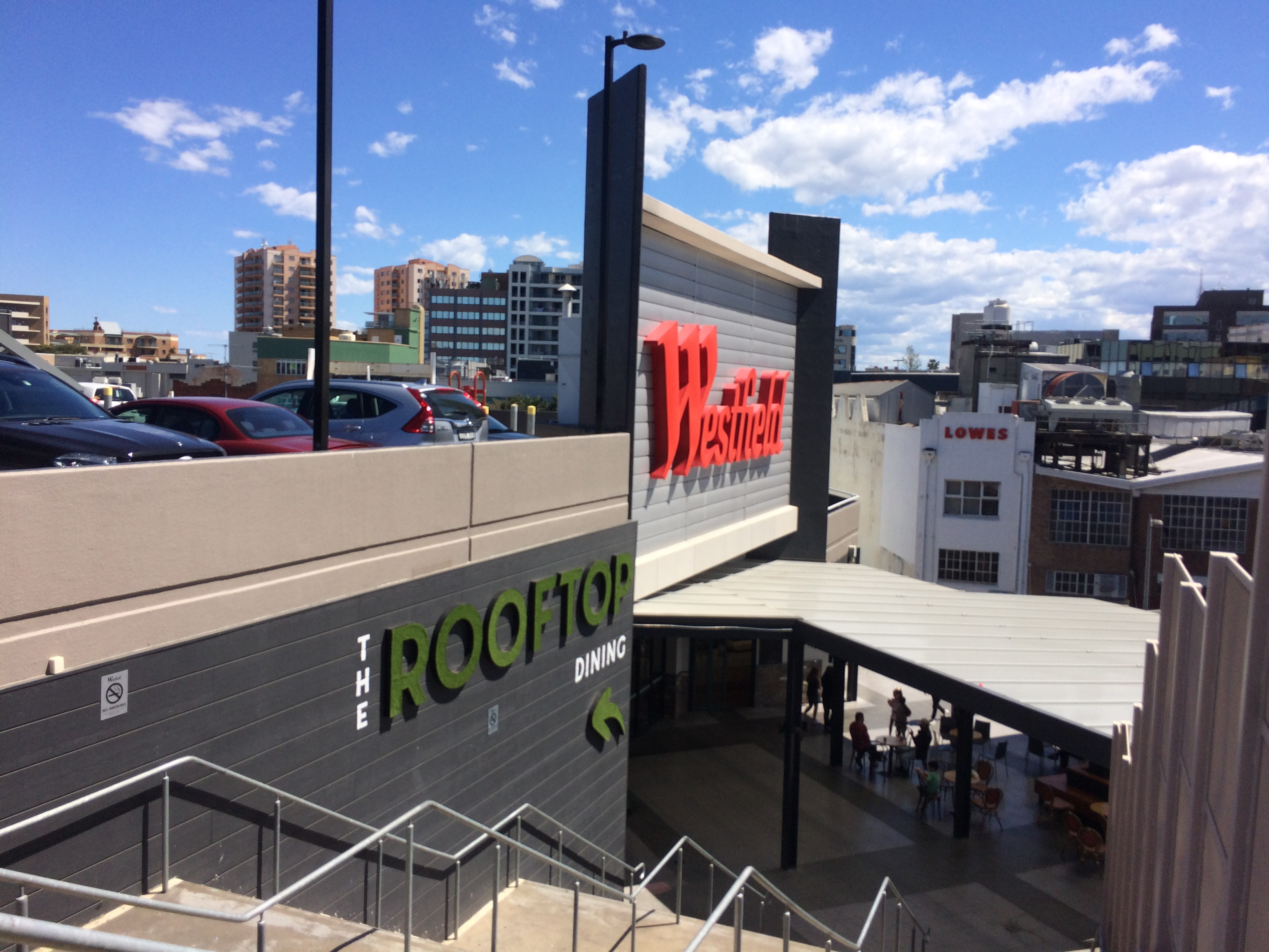 Photo of Westfield from carpark stairs